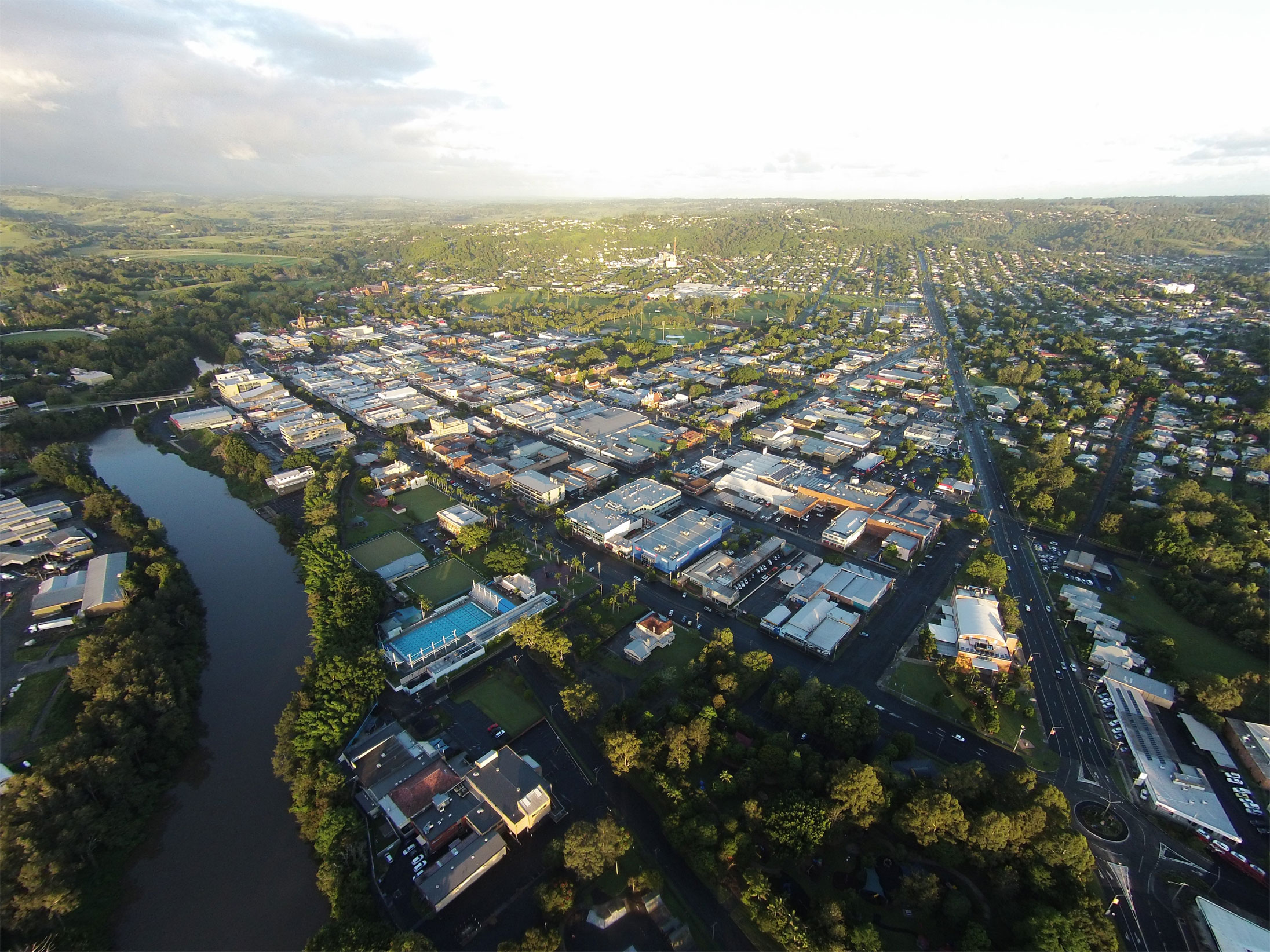 Lismore NSW Australia Aerial View from helicopter, overlooking the Bruxner Highway and Lismore CBD